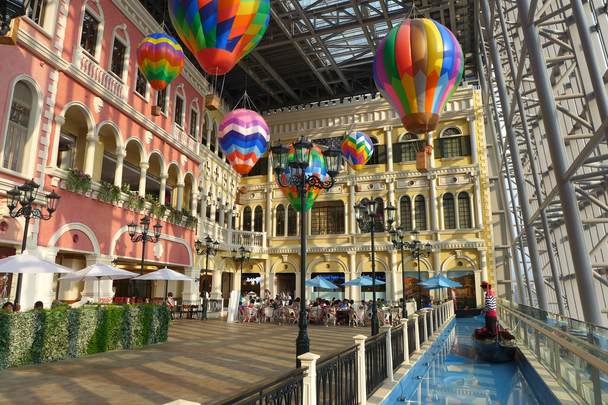 Mega City 板橋大遠百 interior